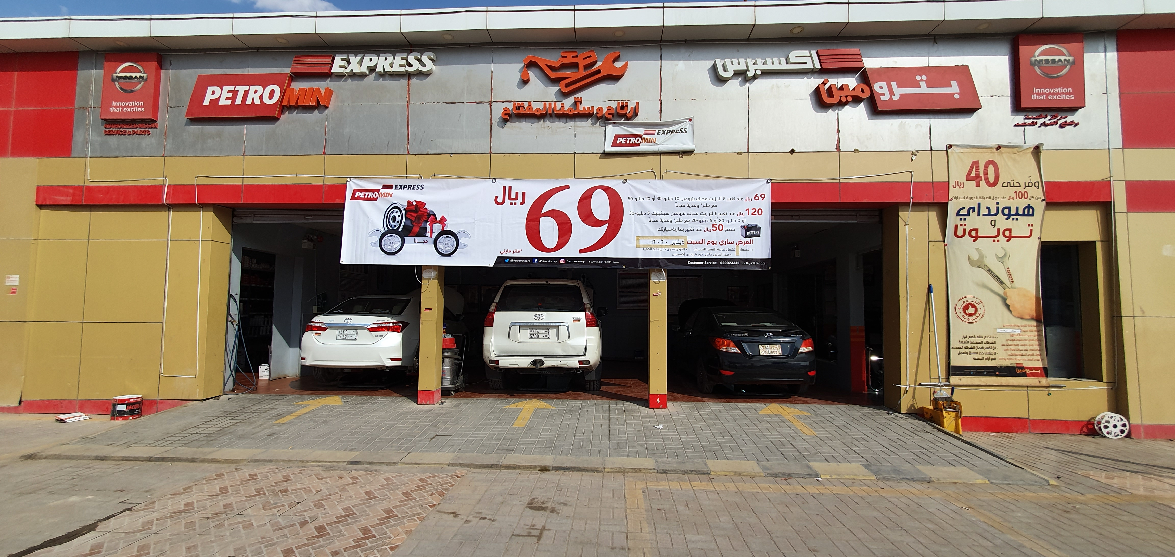 PetroMin Service center at Buraidah Al Qassim Saudi Arabia